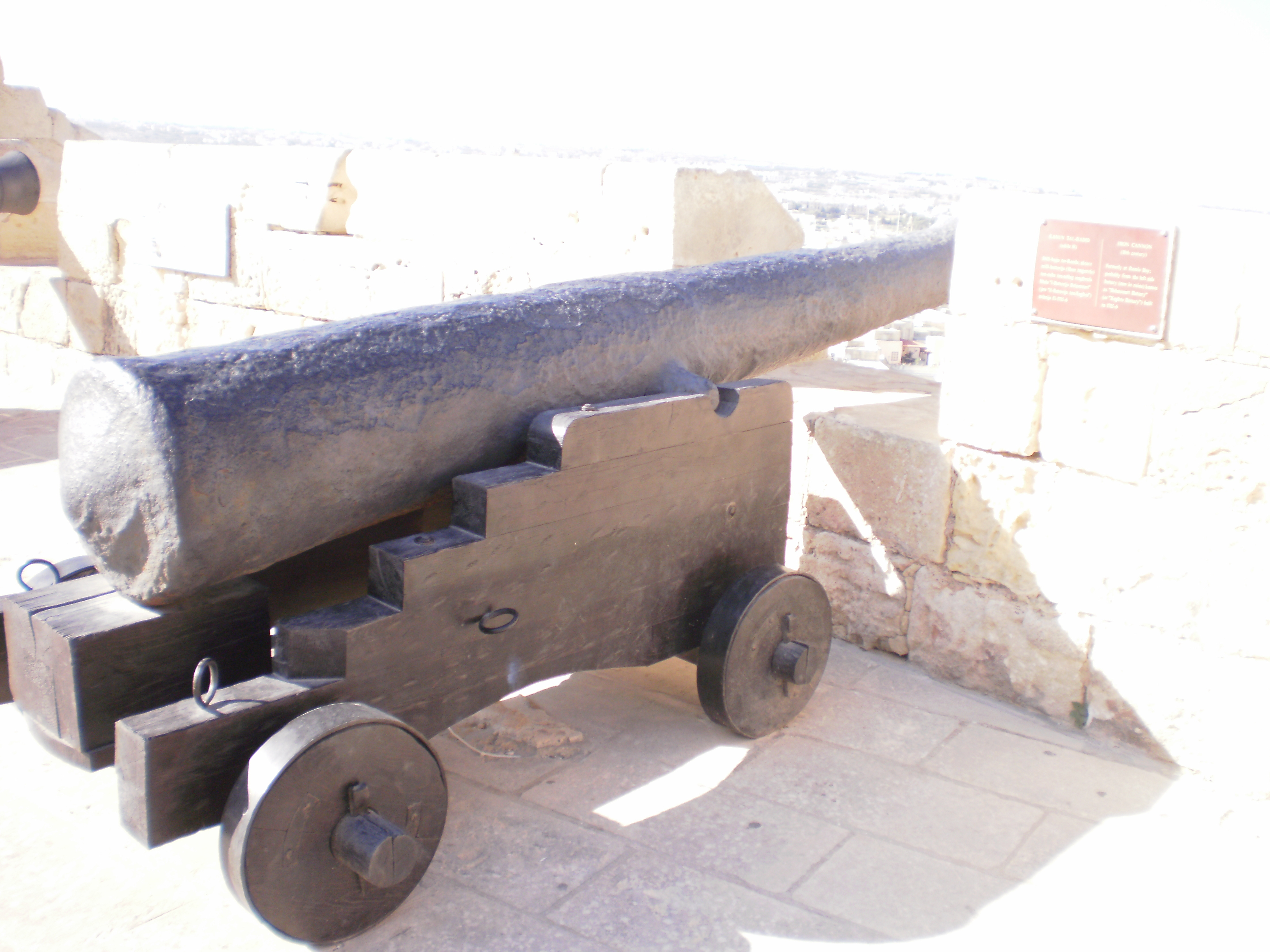 Iron cannon in the Citadella, Victoria, Gozo. Malti: Kanun tal-ħadid fiċ-Ċittadella, ir-Rabat, Għawdex.